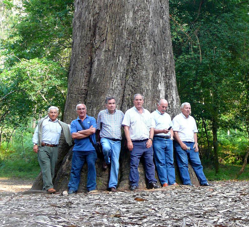 En Chavin, Viveiro